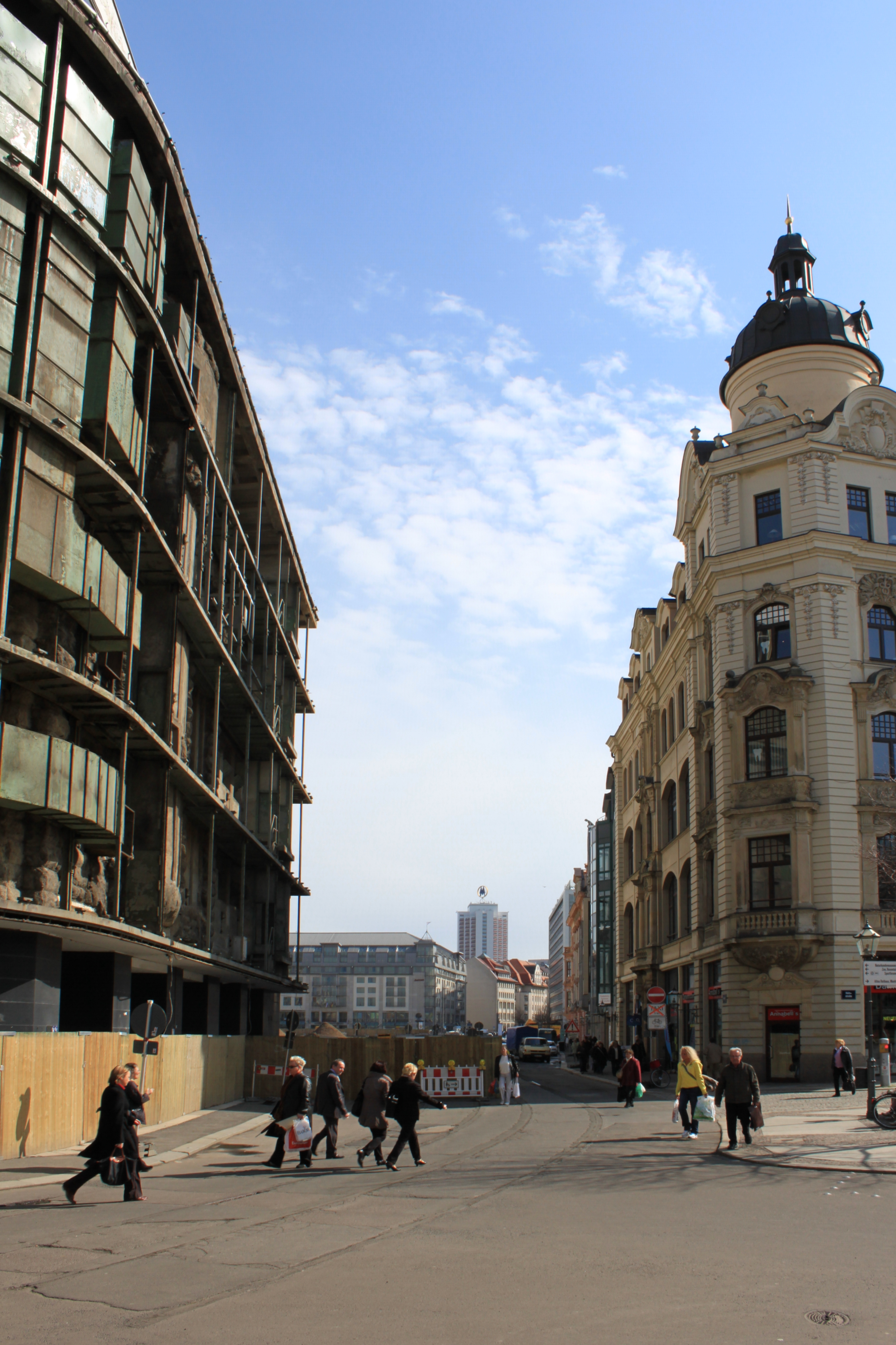 The Brühl from West in 2010